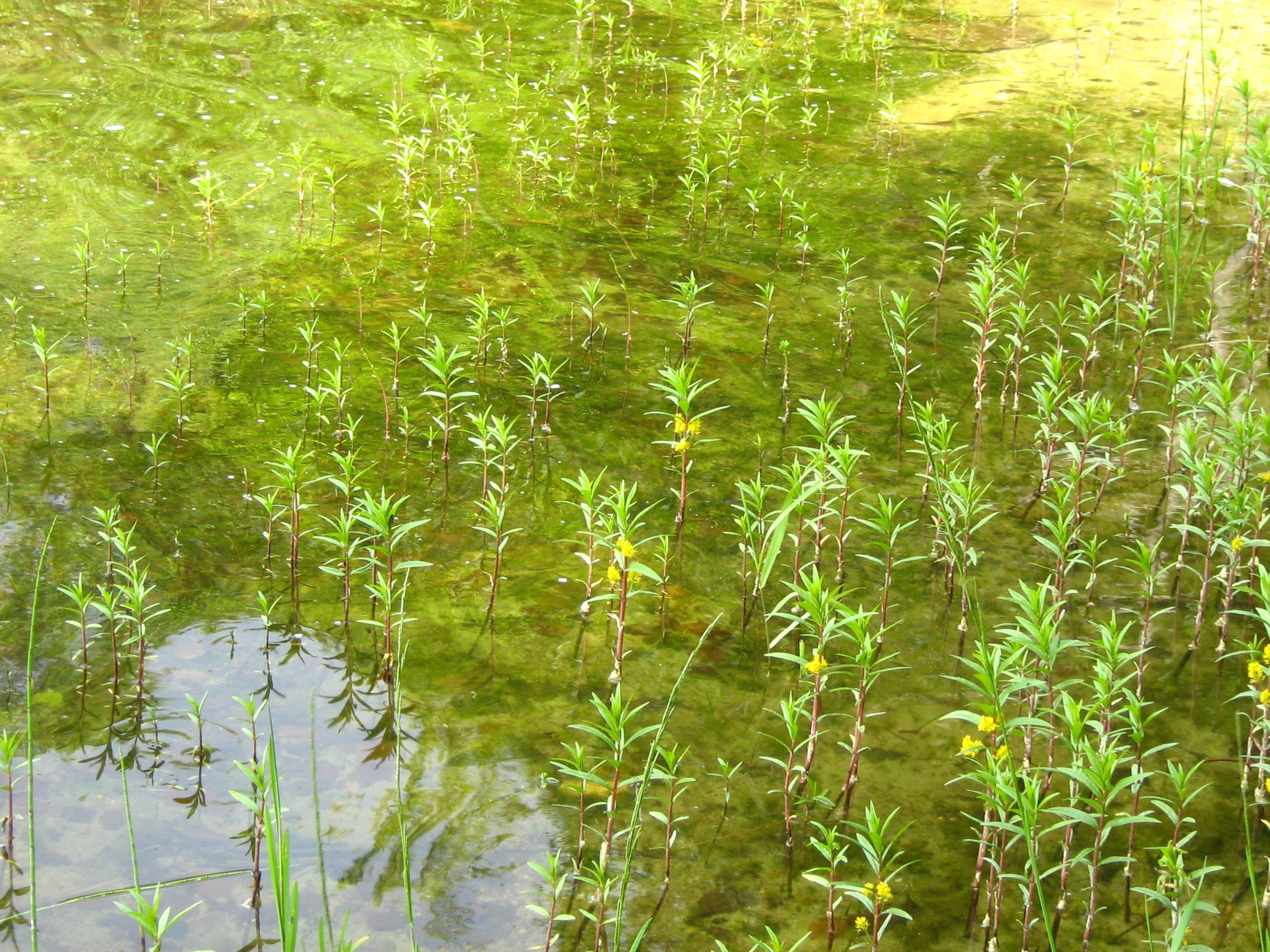 Lysimachia thyrsiflora in Bobiecinskie Wielkie Lake, Poland